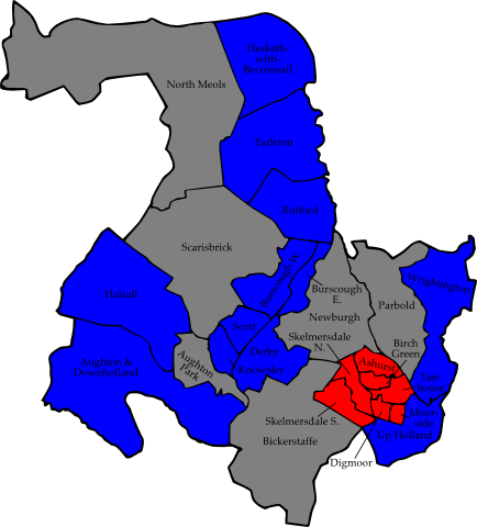 A map of the results of the 2008 West Lancashire Council election. Colour legend by wards won: Conservative party Labour party Wards in grey were not contested in 2008.